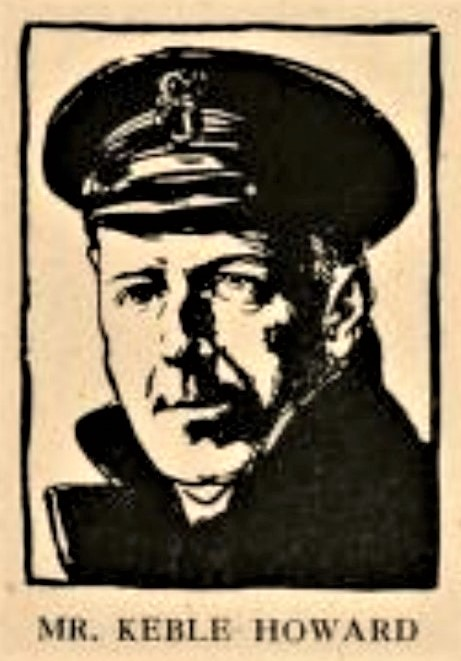 Sketch of English novelist and playwright Keble Howard